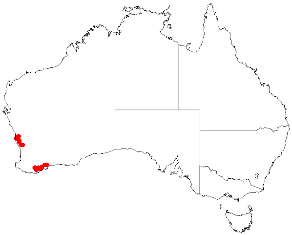 Desmocladus biformis Occurrence data downloaded from Australasian Virtual Herbarium on 24 January 2019 using